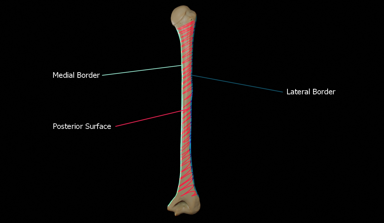 Posterior surface of humerus is the area between the medial and lateral borders.